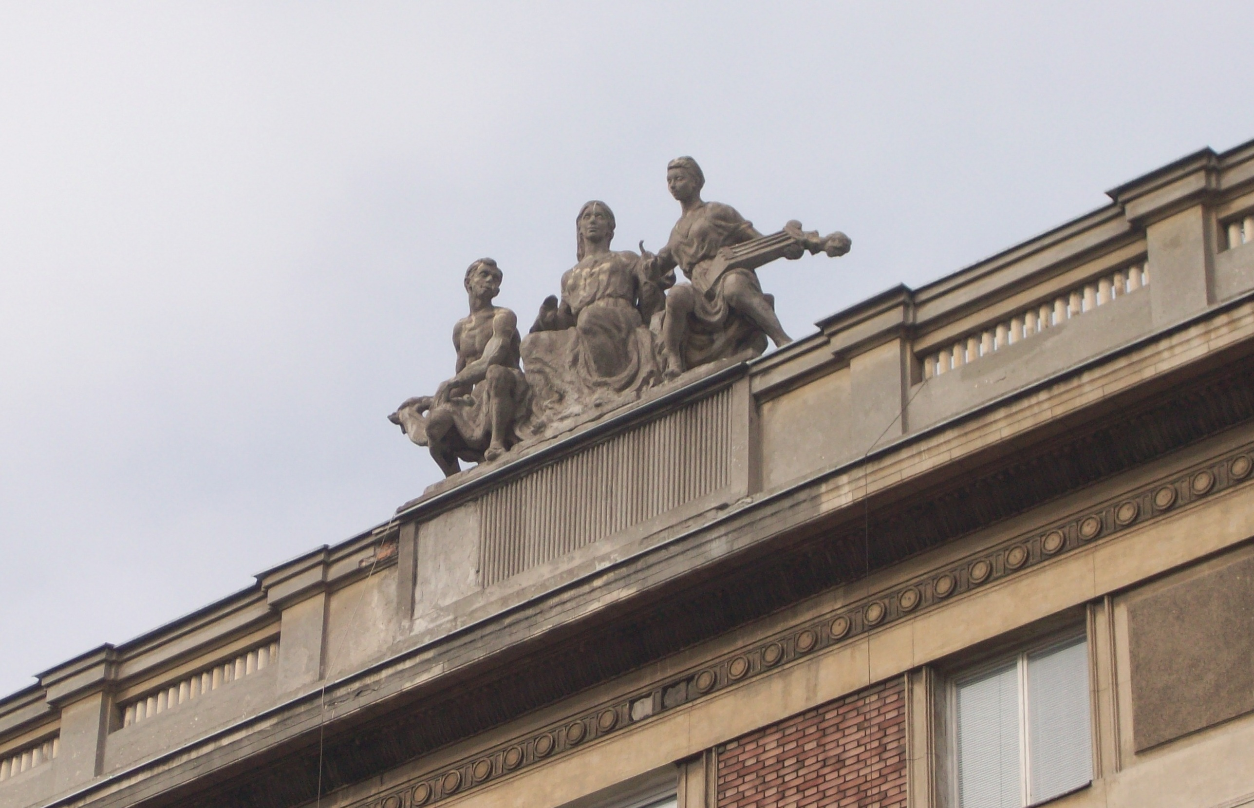 Allegorical presentation of Music made by Józef Gosławski, Wanda Gosławska and Stanisław Gosławski in 1952. The monument is situated in Warsaw, on Koszykowa Street.